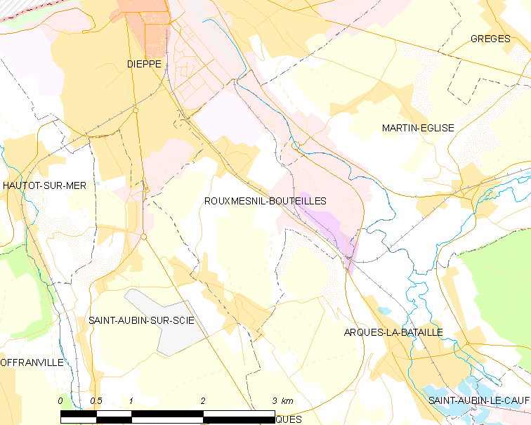 Map of French municipality Rouxmesnil-Bouteilles